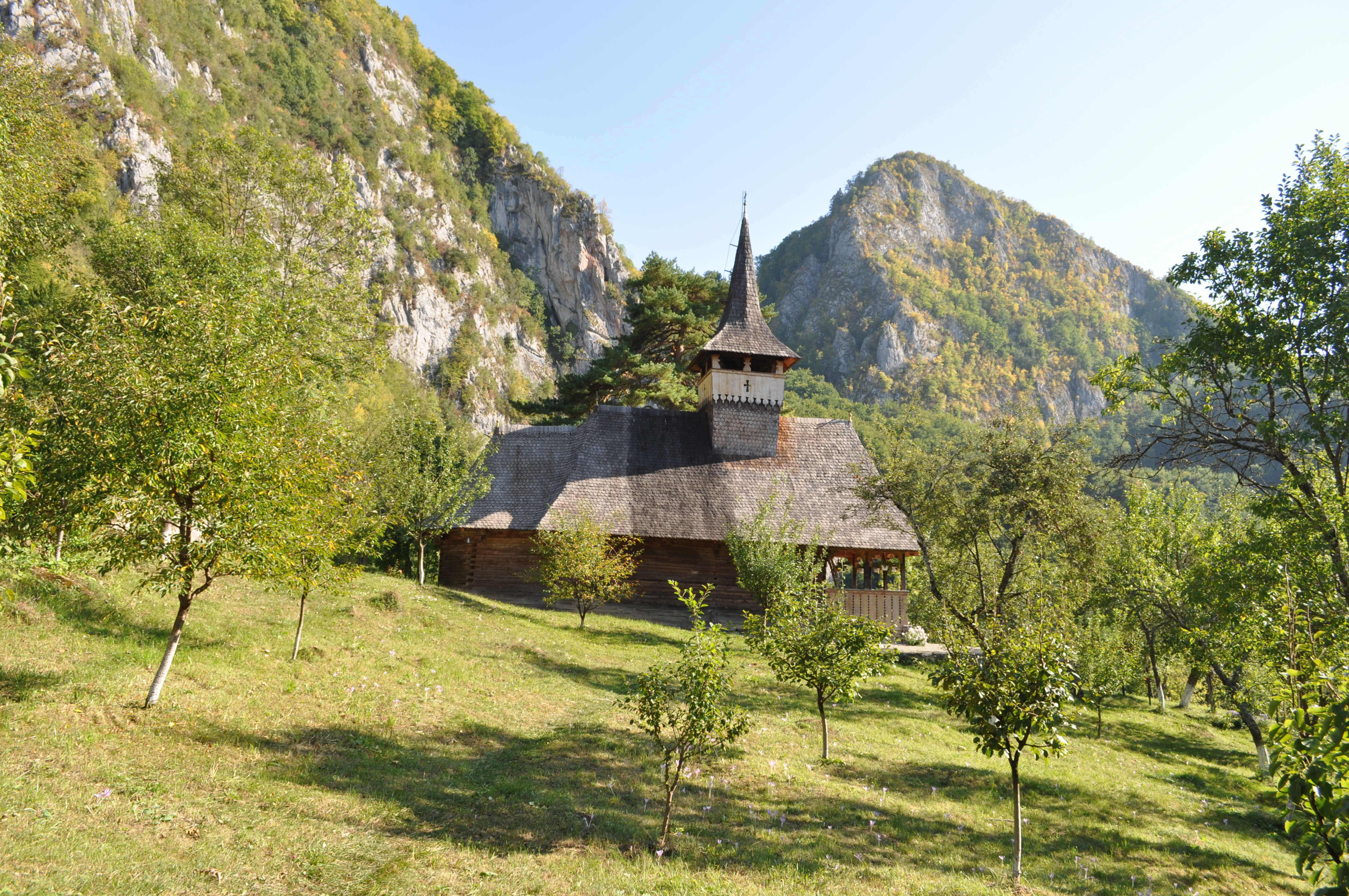 Wooden church in Sub Piatră, Alba countyRomână: Biserica de lemn din Sub Piatră, județul Alba